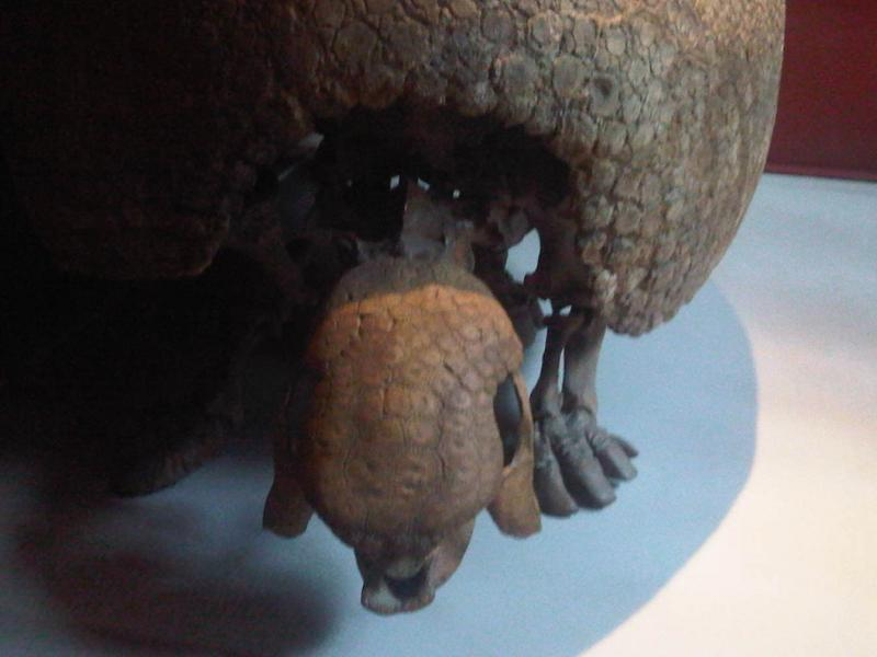 Glyptodon clavipes skull at the Natural History Museum in London.